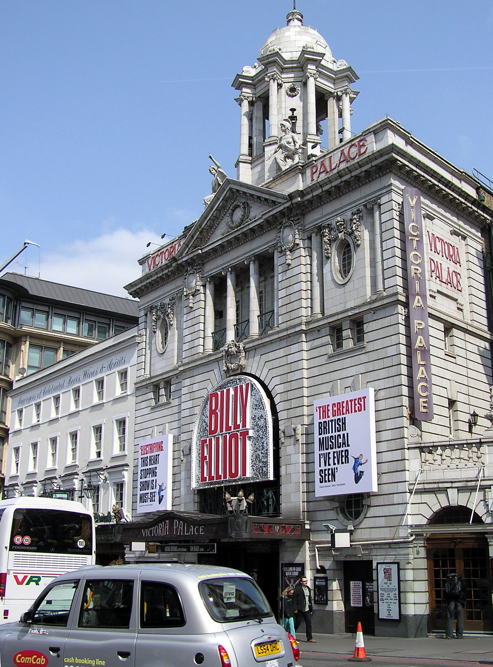 Victoria Palace Theatre, London, England. Photographed by Adrian Pingstone in June 2005 and released to the public domain.